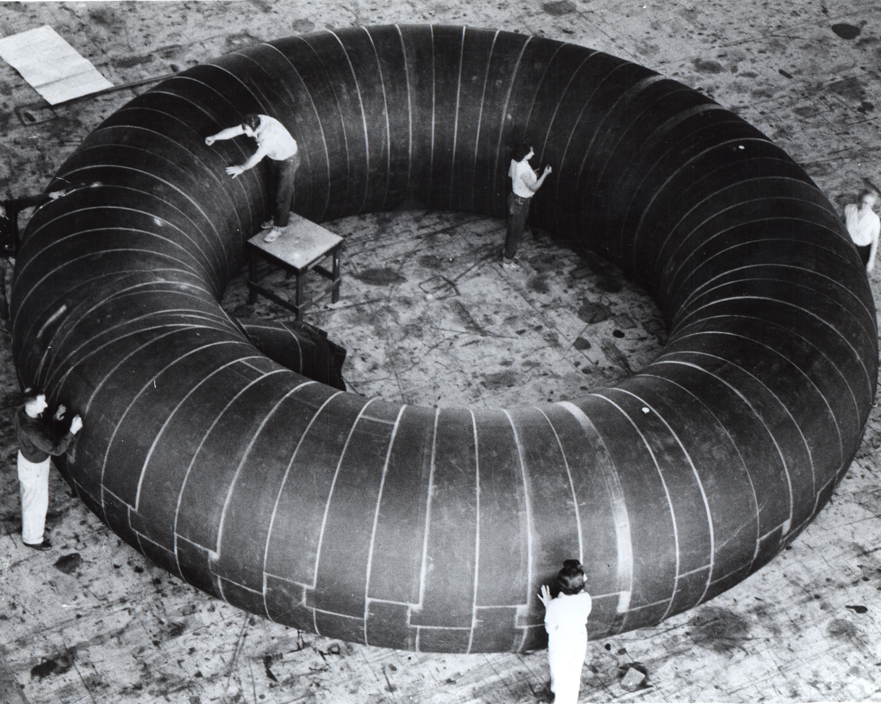 Unlike many other early space station concepts, this design actually made it out of the concept phase and into production, though no models were ever flown. This particular station was 30-feet and expandable. It was designed to be taken to outer space in a small package and then inflate in orbit. The stationcould, in theory, have been big enough for 1 to 2 people to use for a long period of time. A similar 24 foot station was built by the Goodyear Aircraft Corporation for NASA test use. The concept of space inflatables was revived in the 1990s.